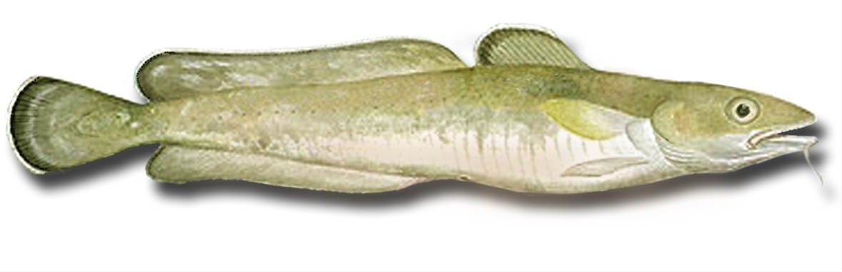 Molva molva